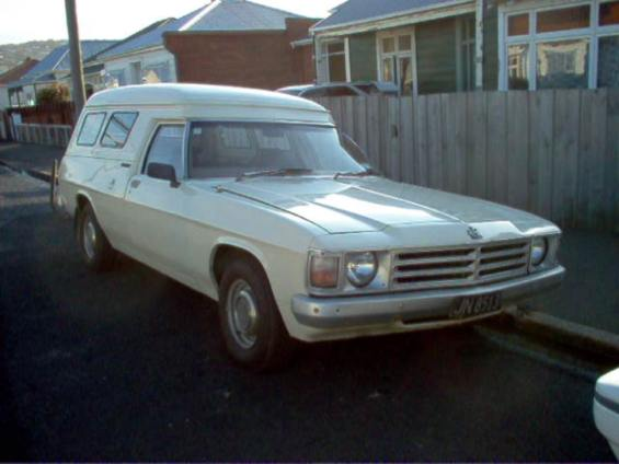 1980 Holden WB panel van.